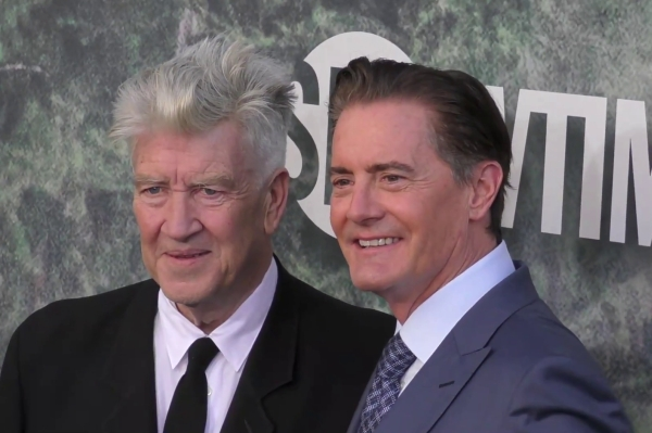 David Lynch and Kyle MacLachlan at the Twin Peaks Premiere at Ace Hotel in Los Angeles